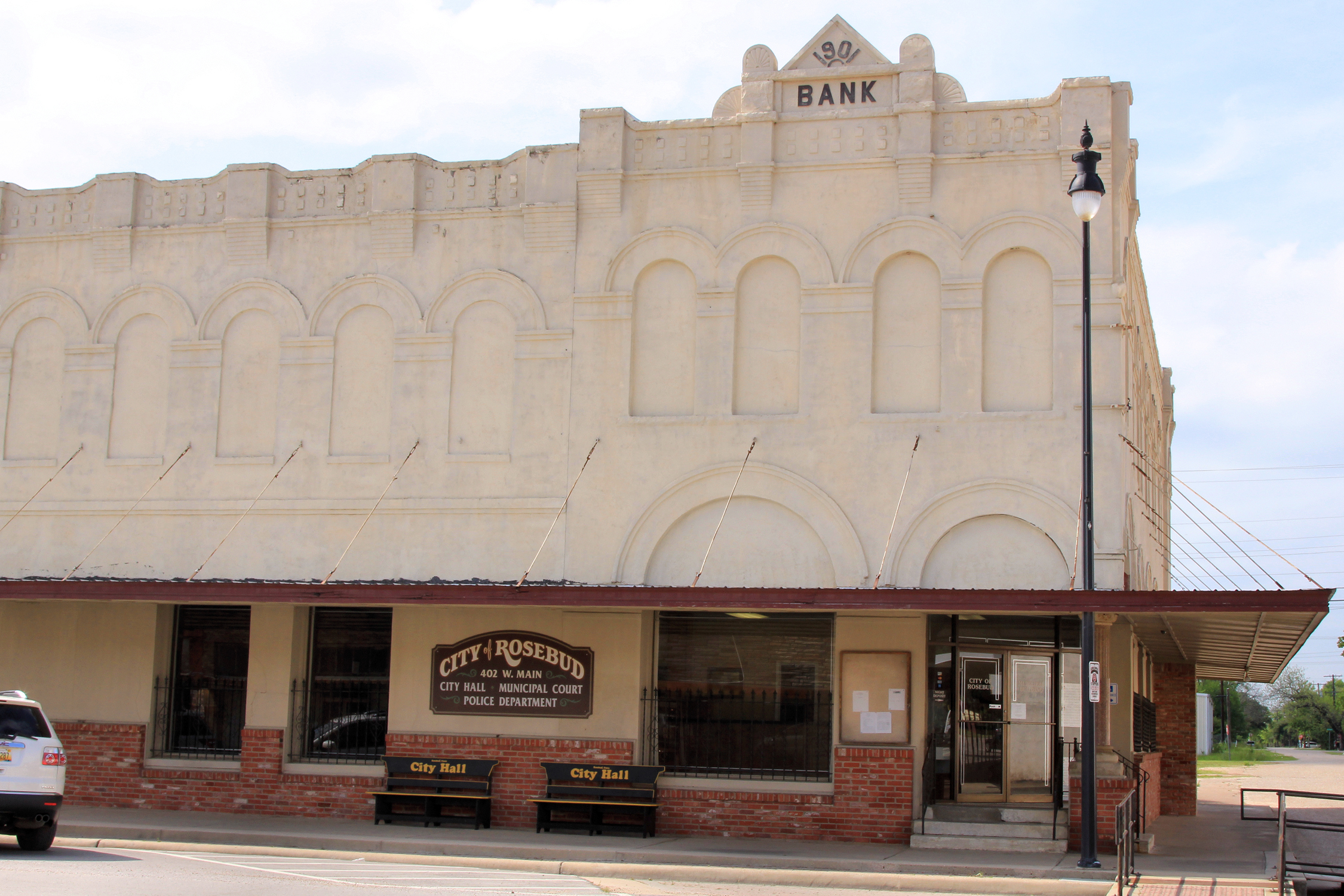 City Hall in Rosebud, Texas, United States